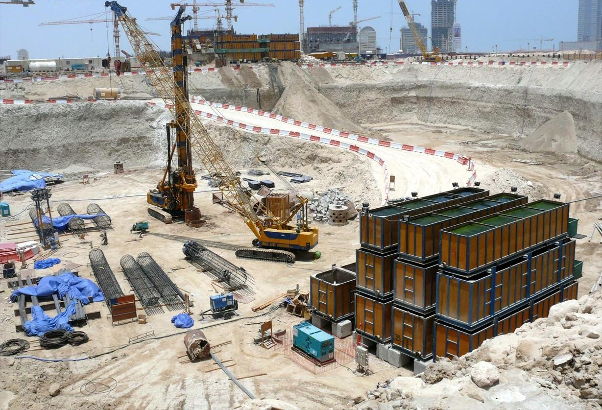 This is a photo showing the construction of Burj Al Alam, located in Business Bay in Dubai, United Arab Emirates, on 13 June 2008.